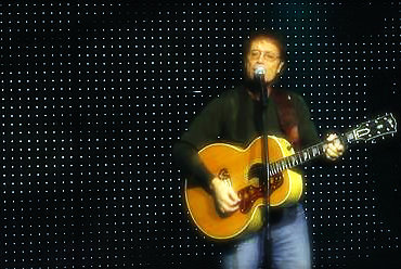 Cliff Richard